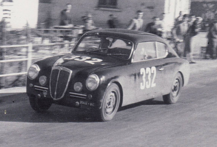 Giovanni Bracco and co-driver Umberto Maglioli at Mille Miglia on 28–29 Aprile 1951 in Lancia Aurelia B20-2000 series 1, entry #332. They ended in 2nd place, 20 minutes after the winning Ferrari! [1] This particular car was "semi-official" (?) chassis no B20-1010, 90 CV engine no B20-1009, had an extra windshield wiper.[2] It was built on 7 April 1951 and registered to driver/owner Bracco on 27 April 1951 in Vicenza as "VC 25466".[3]